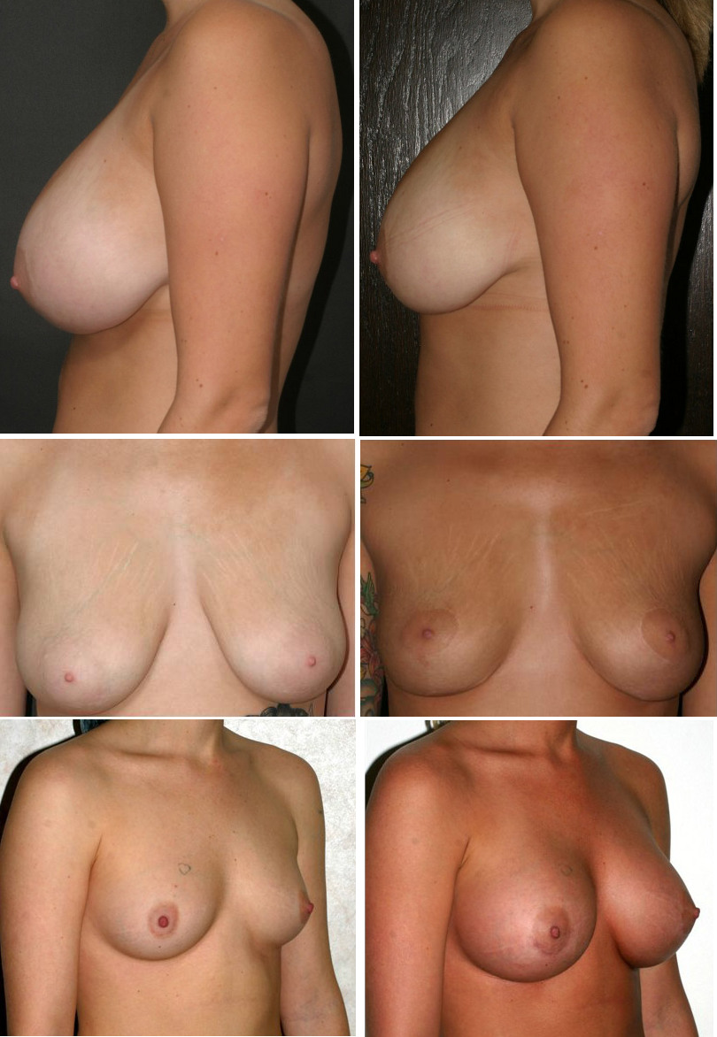 Bilateral breast reduction from utilizing lipectomy technique